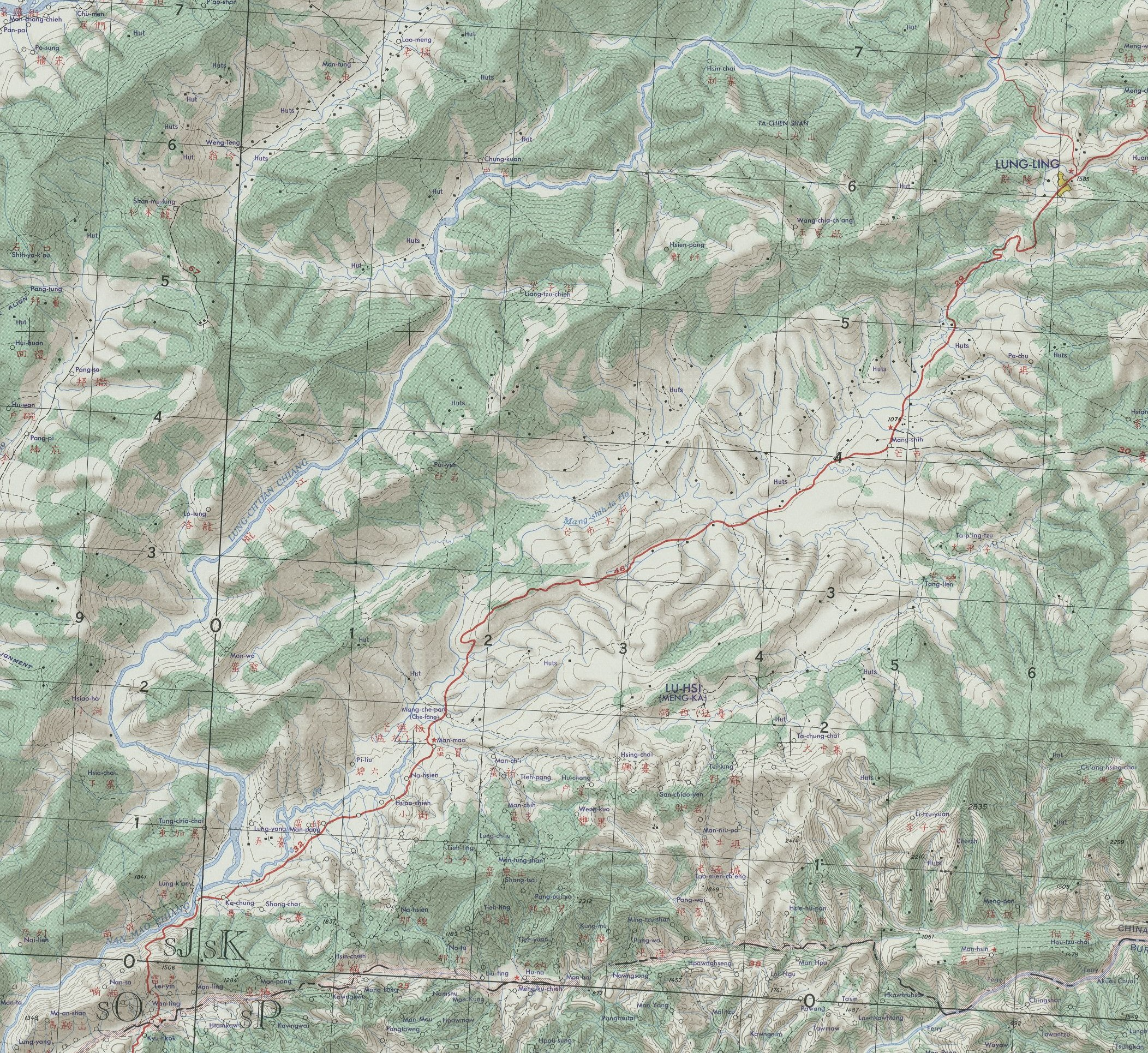 Army Map Service 1954 Lung-ling map Mangshi Region